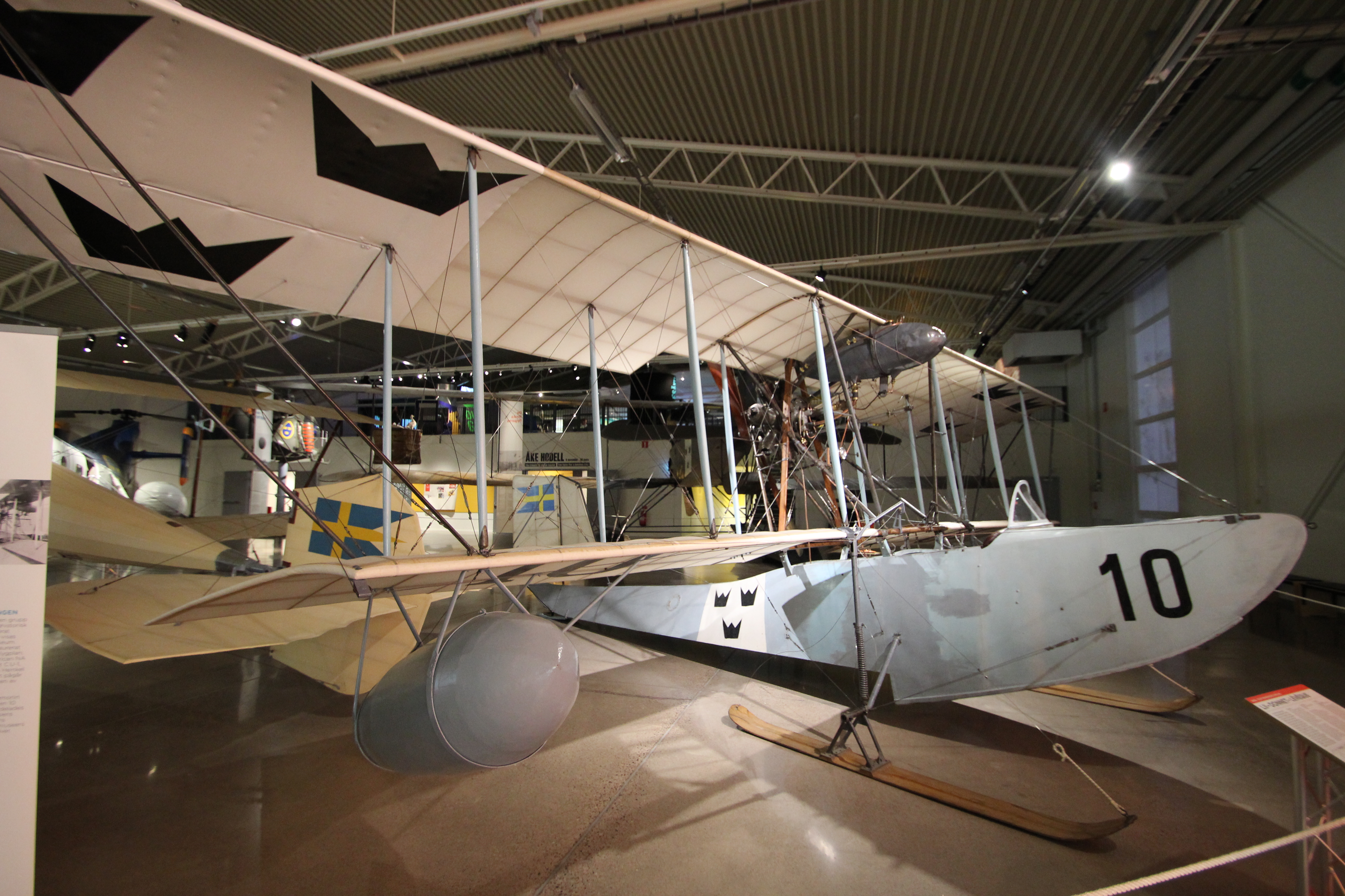 Donnet-Léveque at Flygvapenmuseum, Linköping, Sweden.